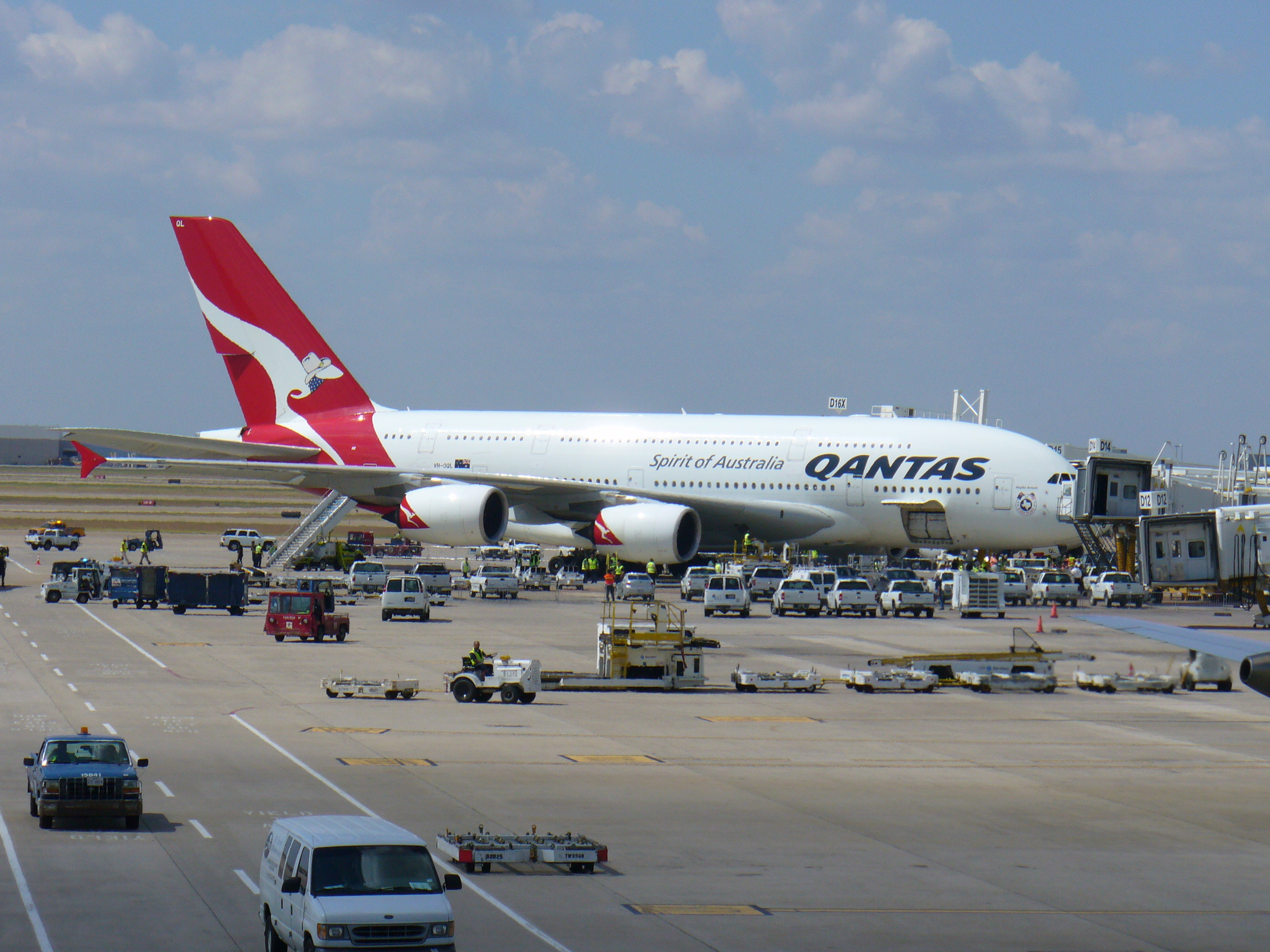 Inaugural Airbus A380 flight from Sydney Airport, Australia, parked at Gates 15 & 16X of Terminal D at Dallas/Fort Worth International Airport, 29 September 2014.